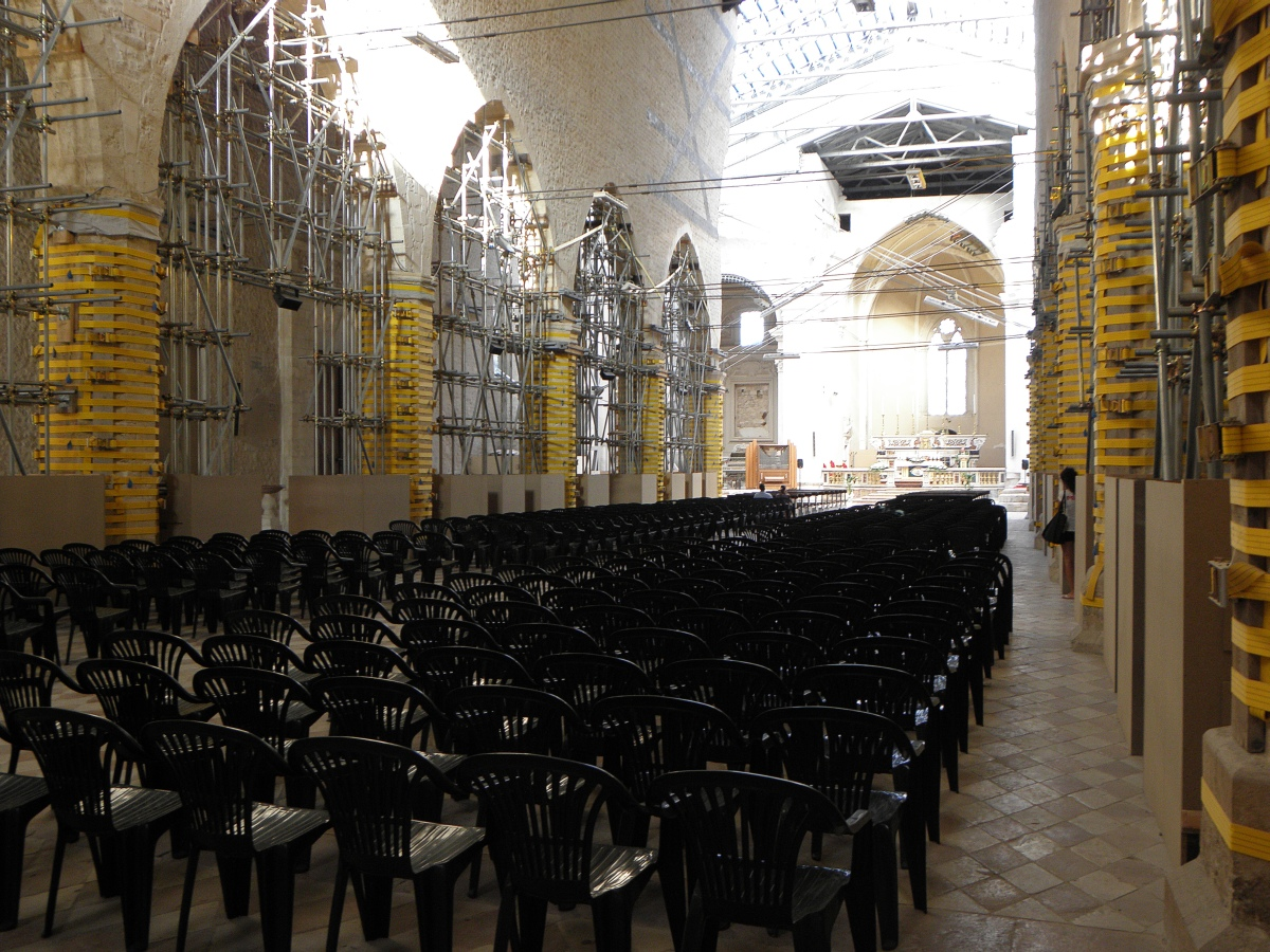 L'Aquila 2010